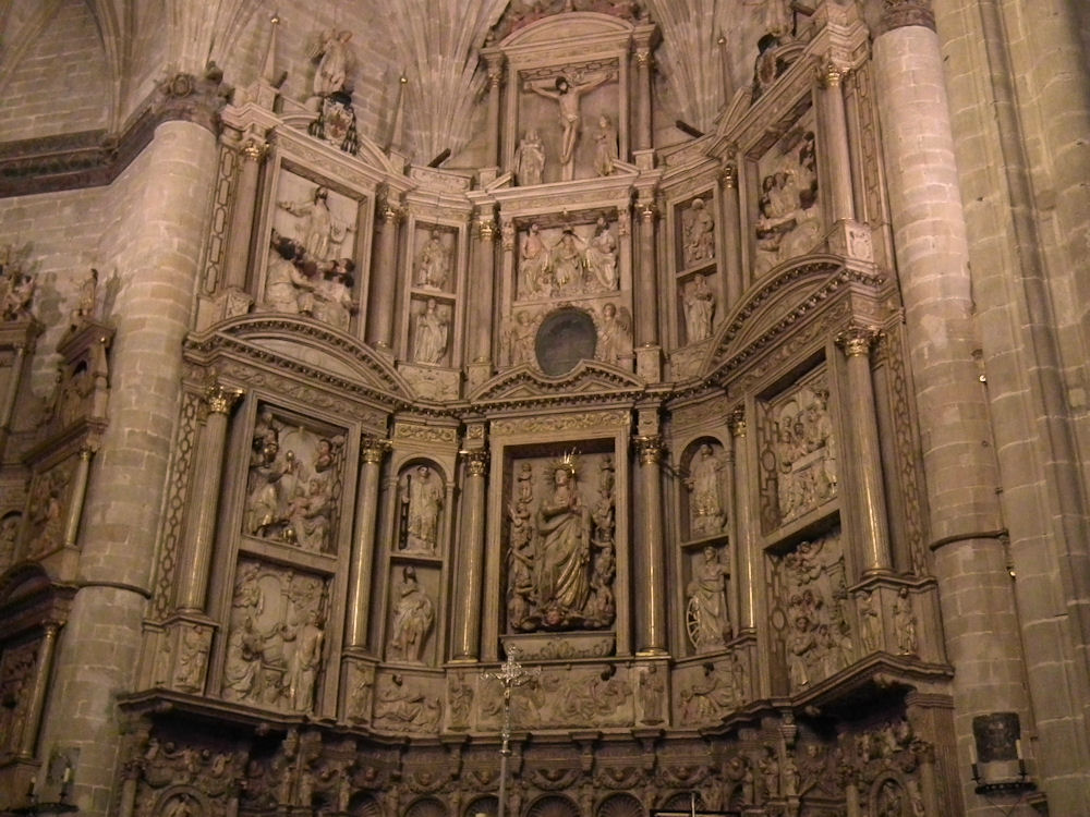 "Assumption of Mary" -- The main altar piece of the Catedral de Santa María de la Asunción, Barbastro, Huesca, Spain